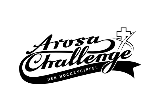 Logo of icehockey tournament Arosa Challenge, Switzerland